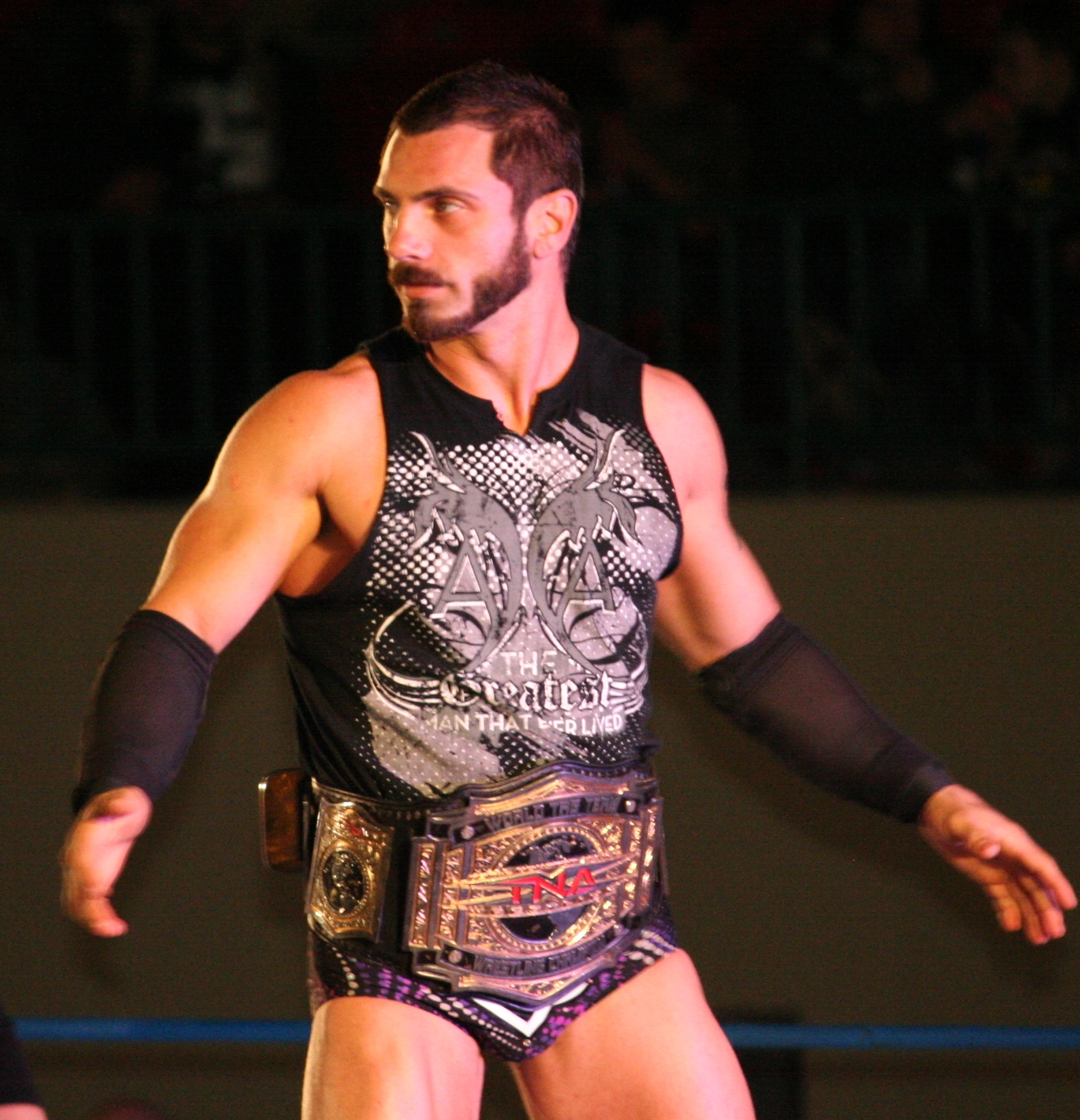 Austin Aries at a TNA event in March 2013.